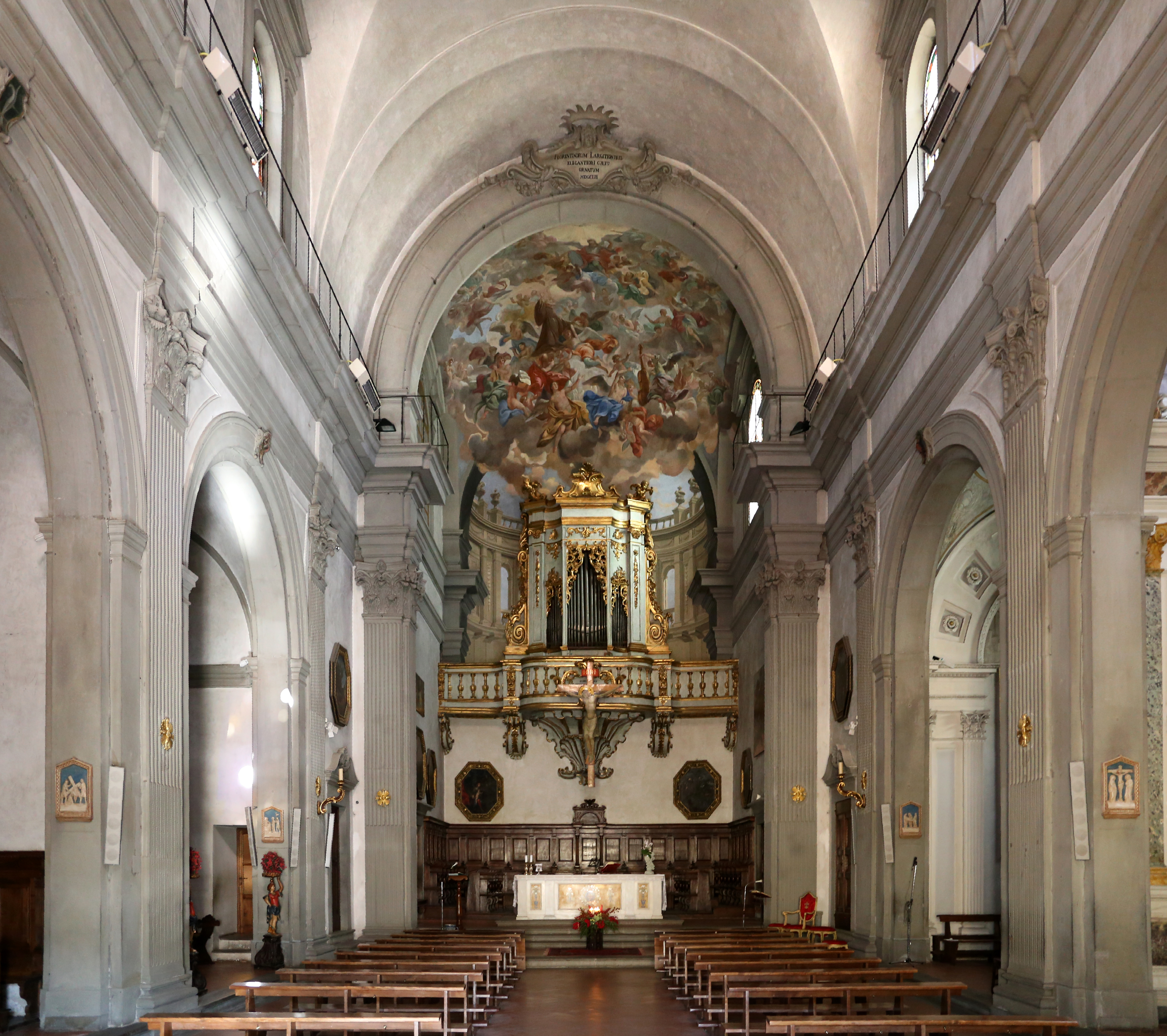 San Giuseppe (Florence) - Interior